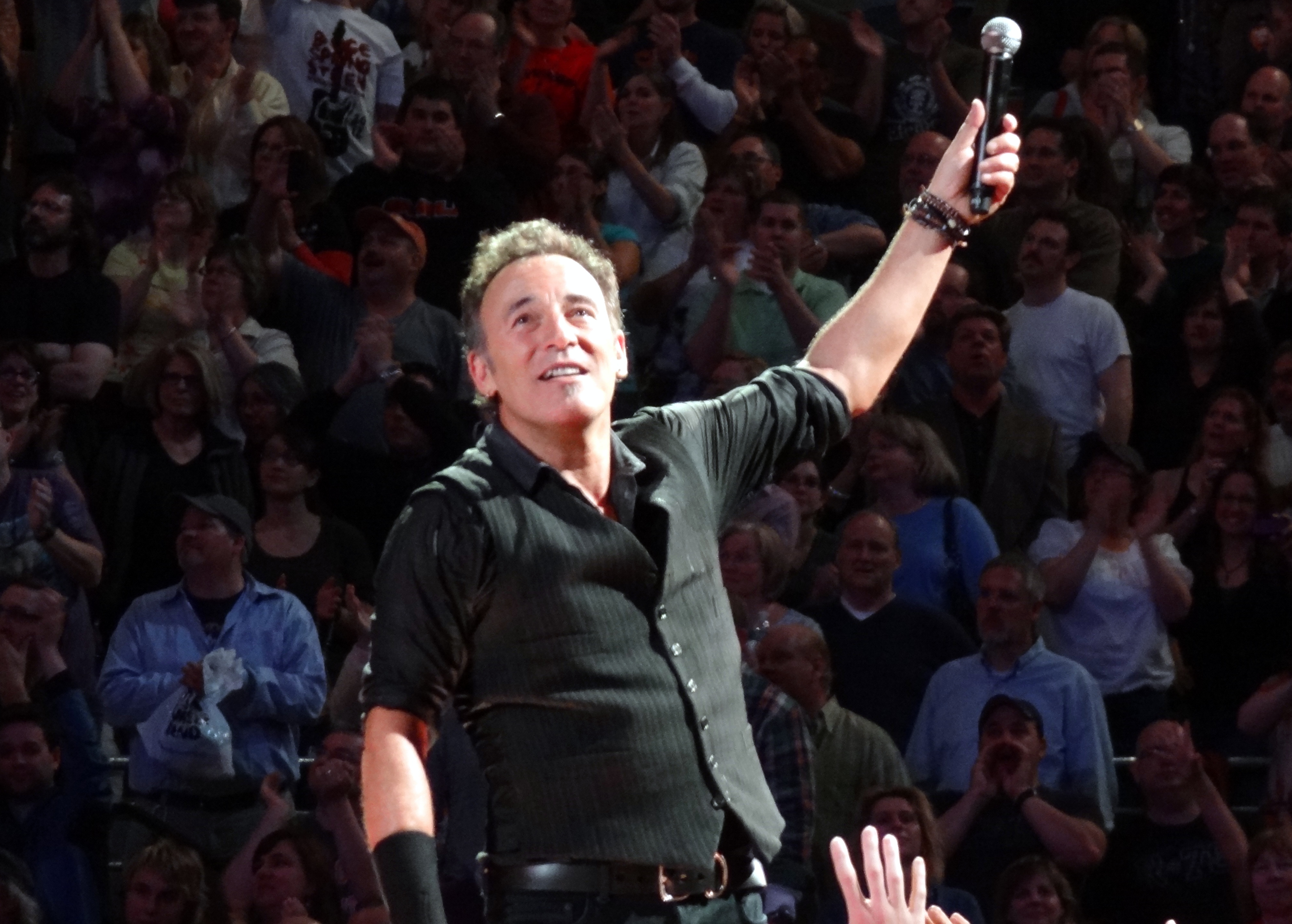 Bruce Springsteen, Palace of Auburn Hills, Detroit , 4/12